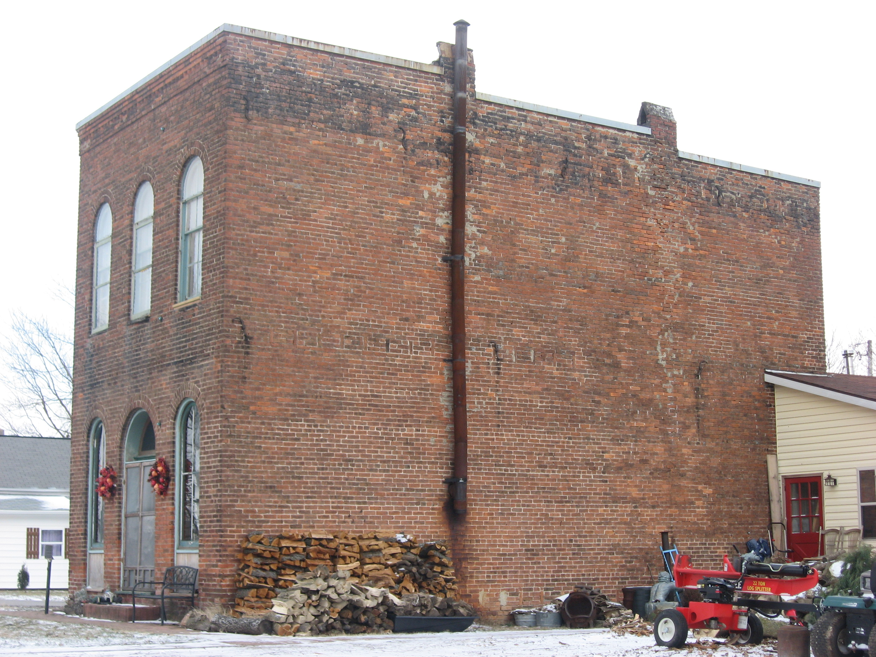 Front and western side of the Rosenberger Building, located on the southern corner of the junction of Clark and Midway Streets in Colfax, Indiana, United States. Built in 1850, it is listed on the National Register of Historic Places.